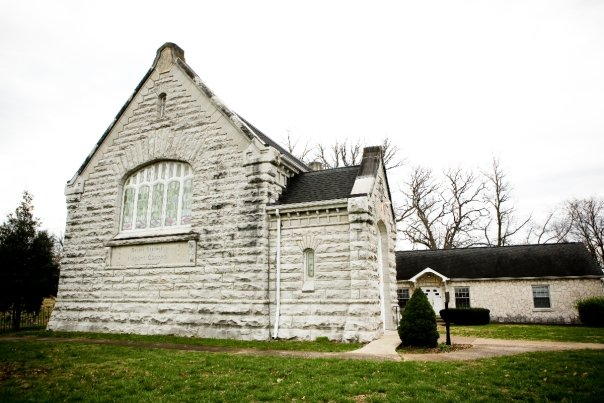 Burton Memorial Baptist Church, formerly known as Drakes Creek Baptist Church, a historic church on Cemetery Road near Bowling Green, Kentucky.